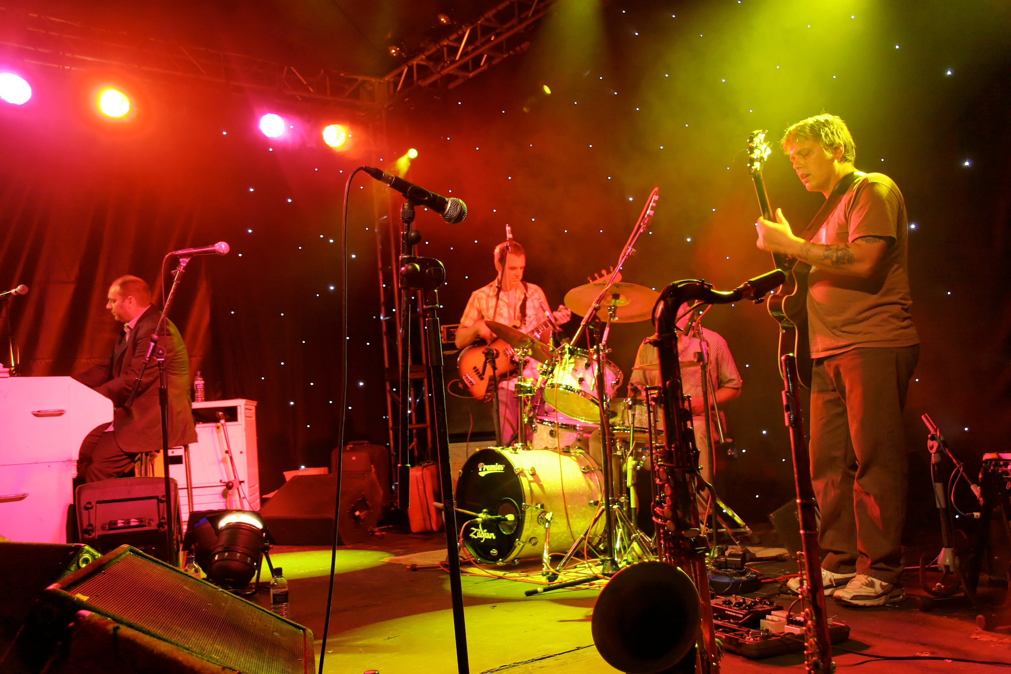 The James Taylor Quartet - Hampton Pool, 28th July 2006.